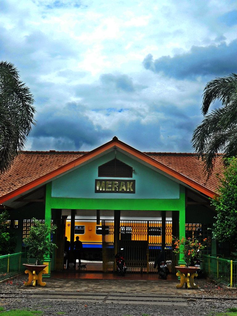 Merak Train Station Gateway